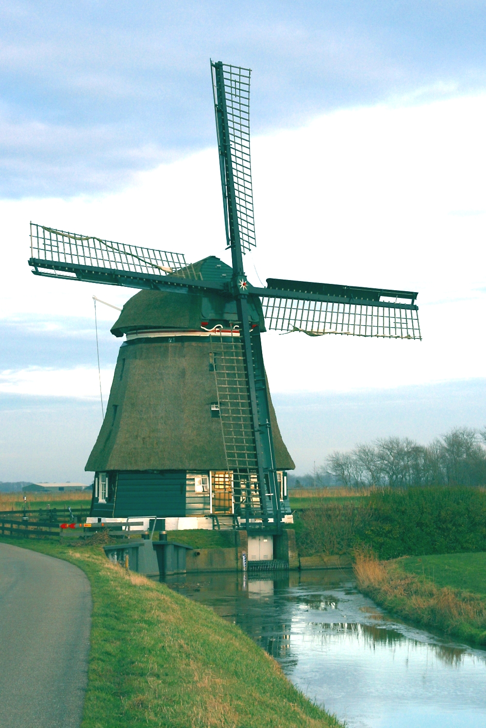 the windmill Groetermolen in Groet, Bergen, North Holland